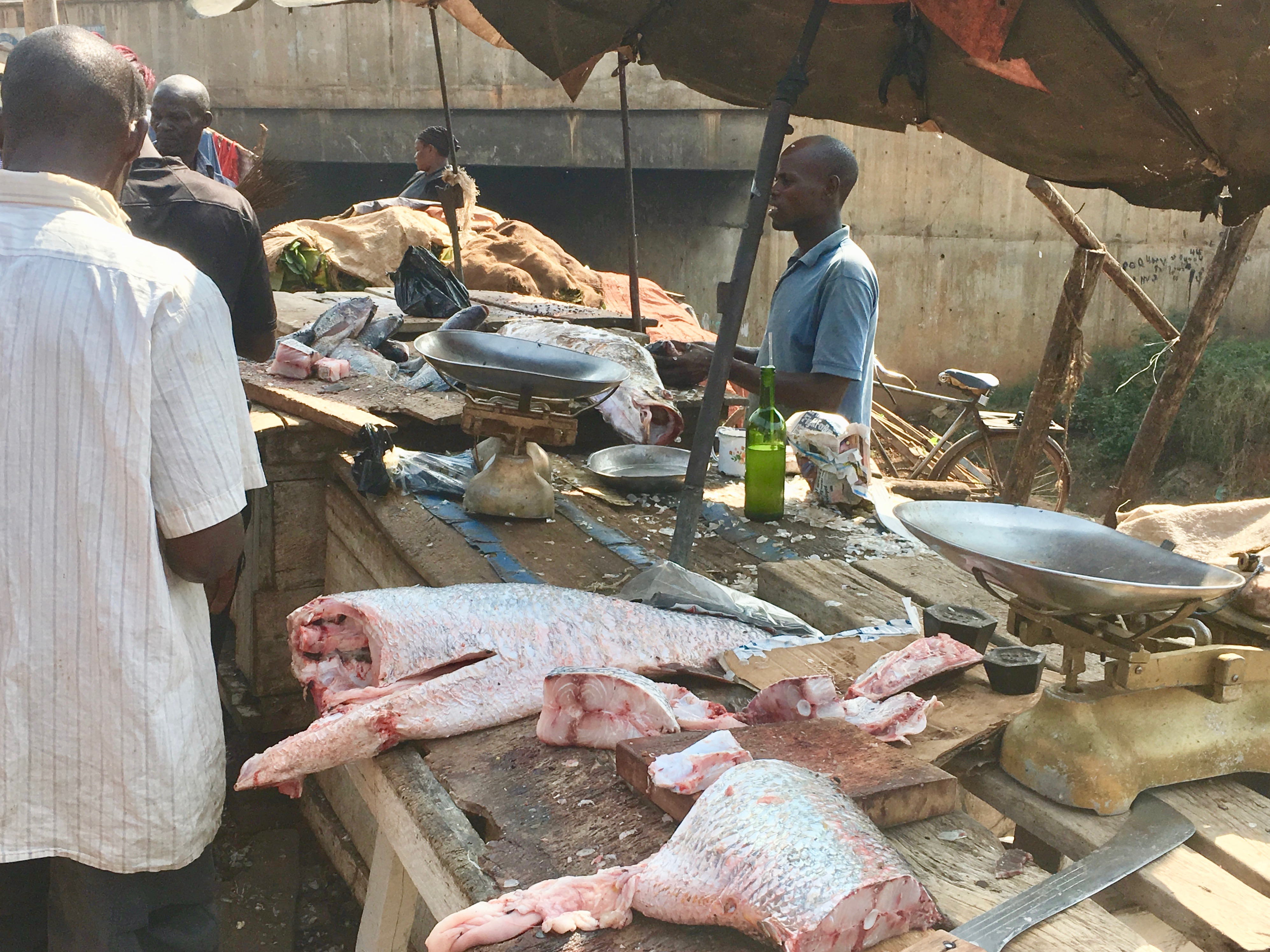 Fish sellers Kampala great Nile Perch from Lake Victoria are sold by these fishmongers in Kampala This is an image of "African people at work" from Uganda